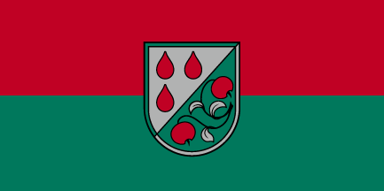 Flag of Olaine Municipality, Latvia.